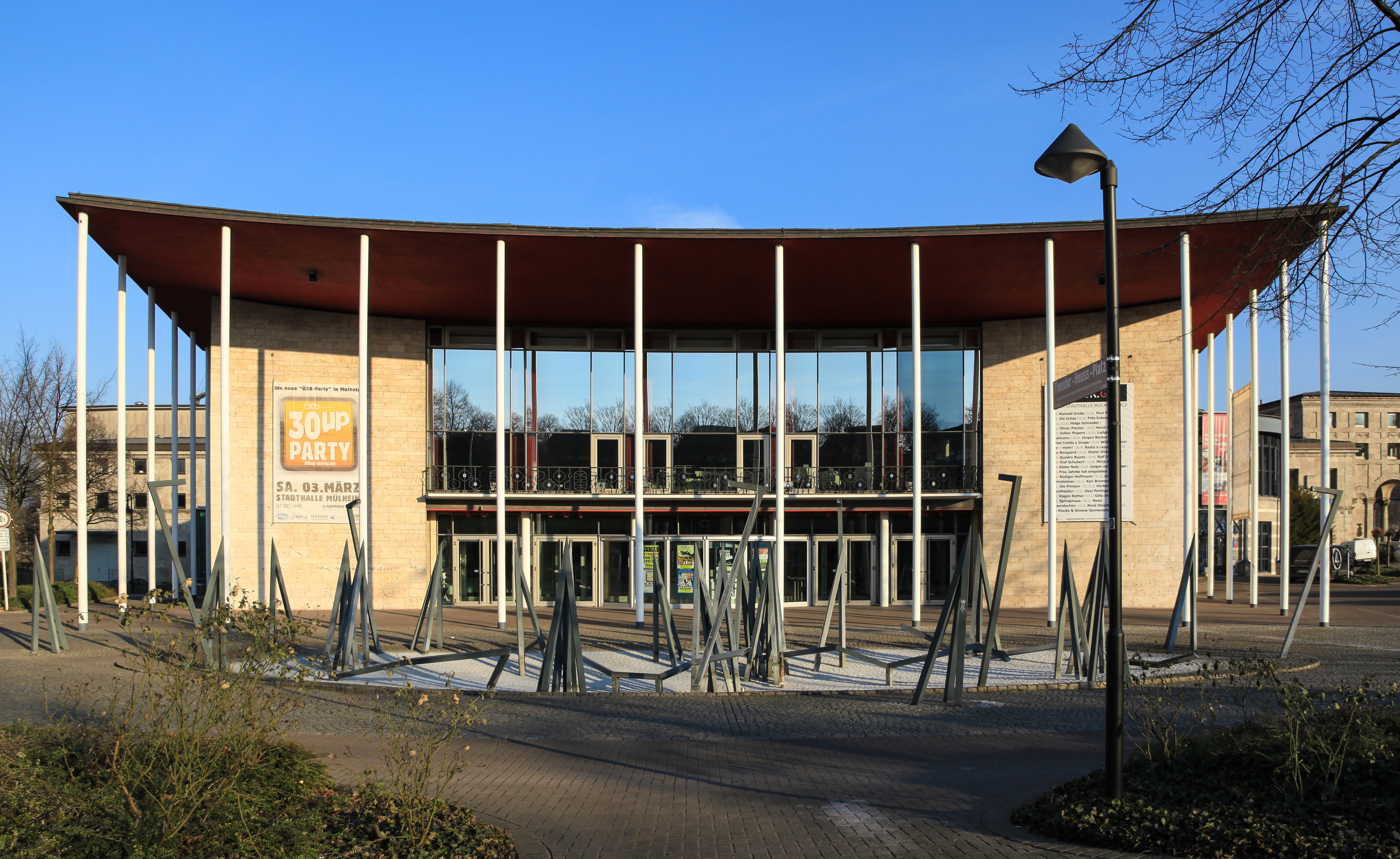 Conference hall at Theodor-Heuss-Platz in Mülheim an der Ruhr